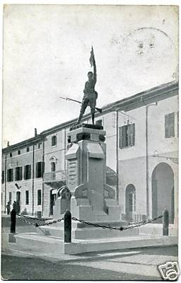 The photo represents a monumental statue of WWI soldier in the main square of Codigoro (Ferrara, Italy), sculpted by Mario Sarto - for whom I'm publishing a Wiki page in Italian and English.